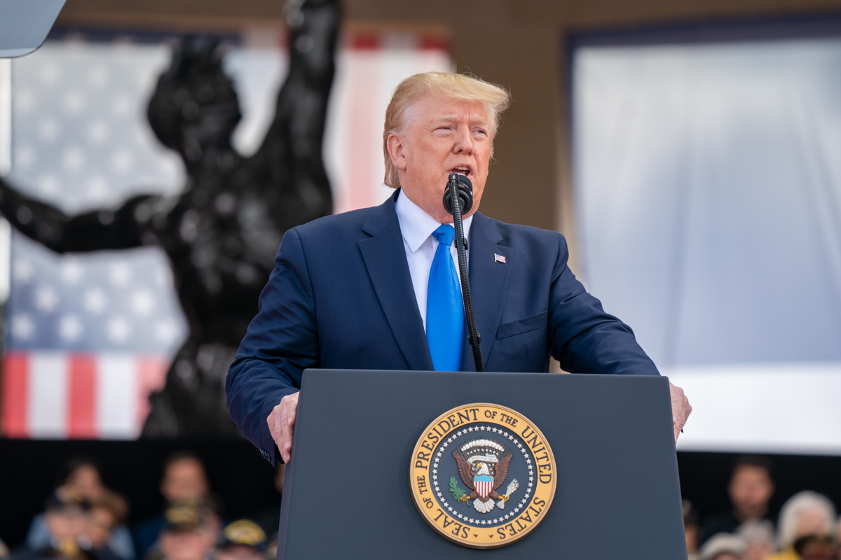 President Donald J. Trump delivers remarks at the 75th Commemoration of D-Day Thursday, June 6, 2019, at the Normandy American Cemetery in Normandy, France. (Official White House Photo by Shealah Craighead)